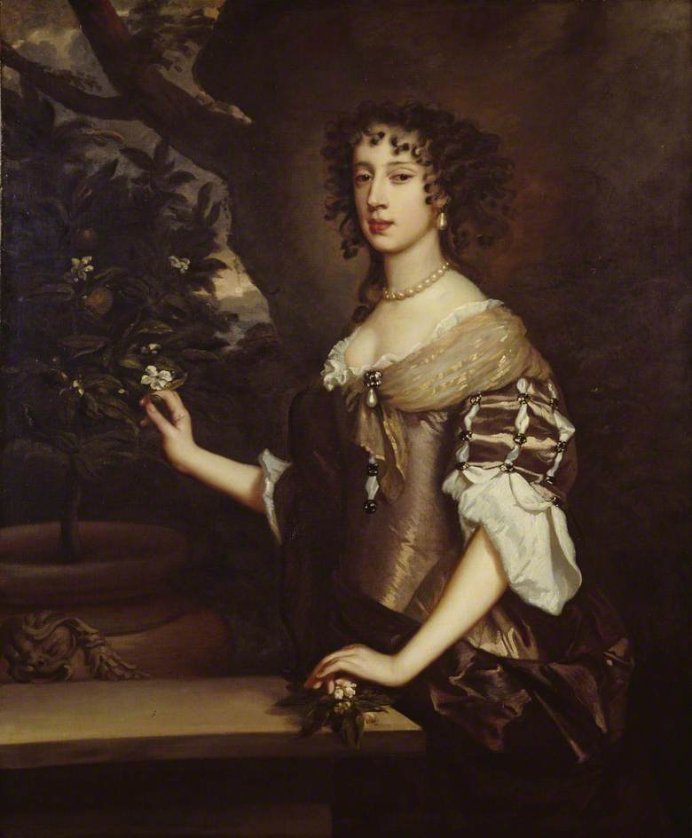 Mary Beatrice of Modena, the year of her proxy marriage to James, Duke of York (future King James II).